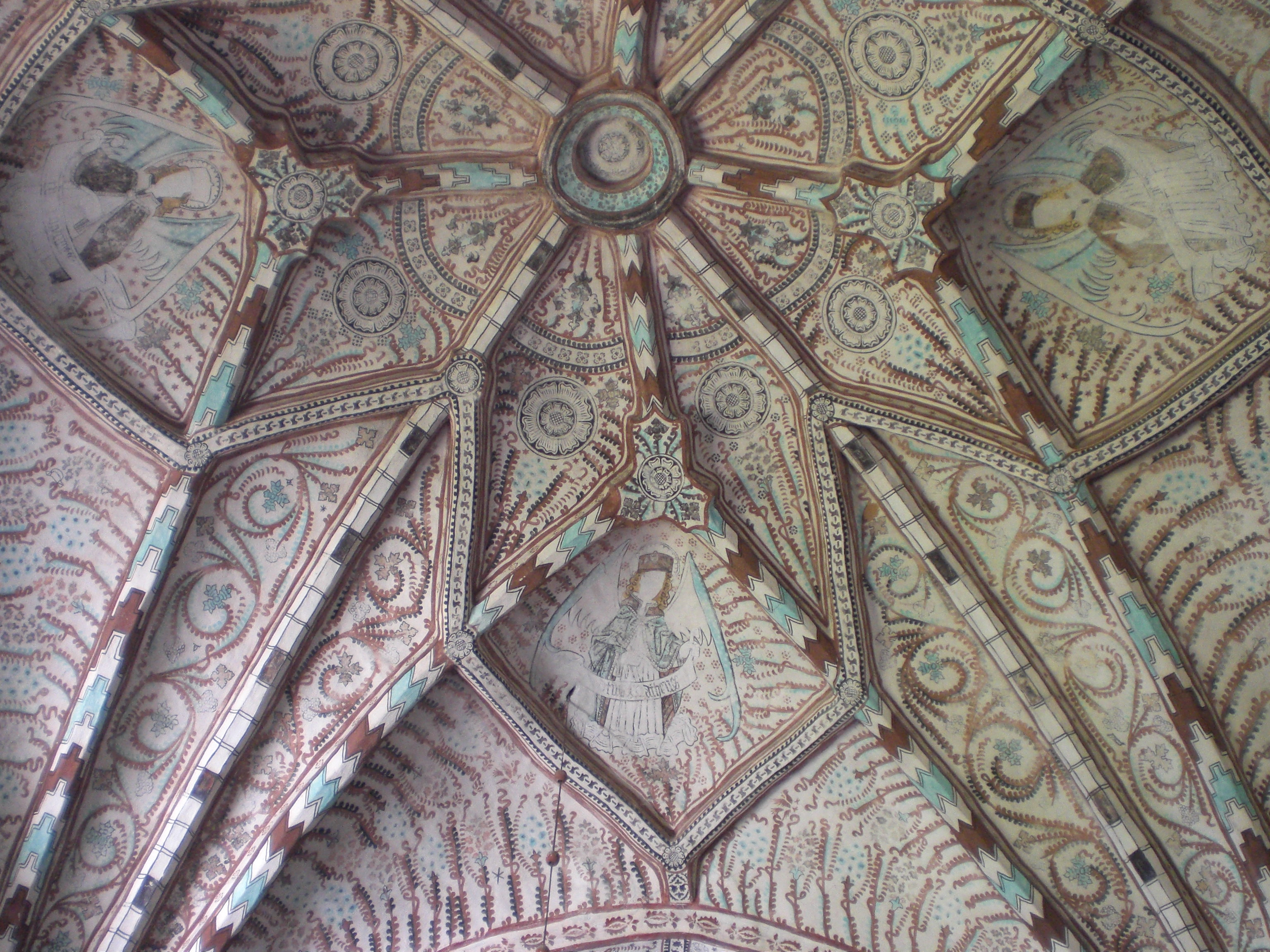 Valve